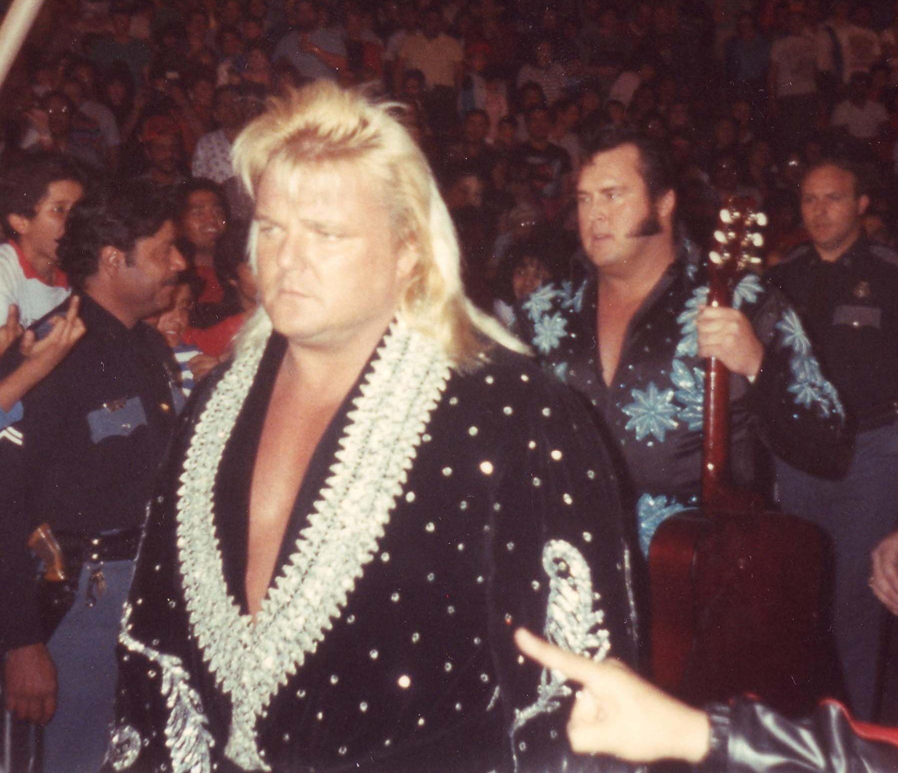 Professional wrestlers Greg "The Hammer" Valentine and The Honky Tonk Man, together as Rhythm and Blues.